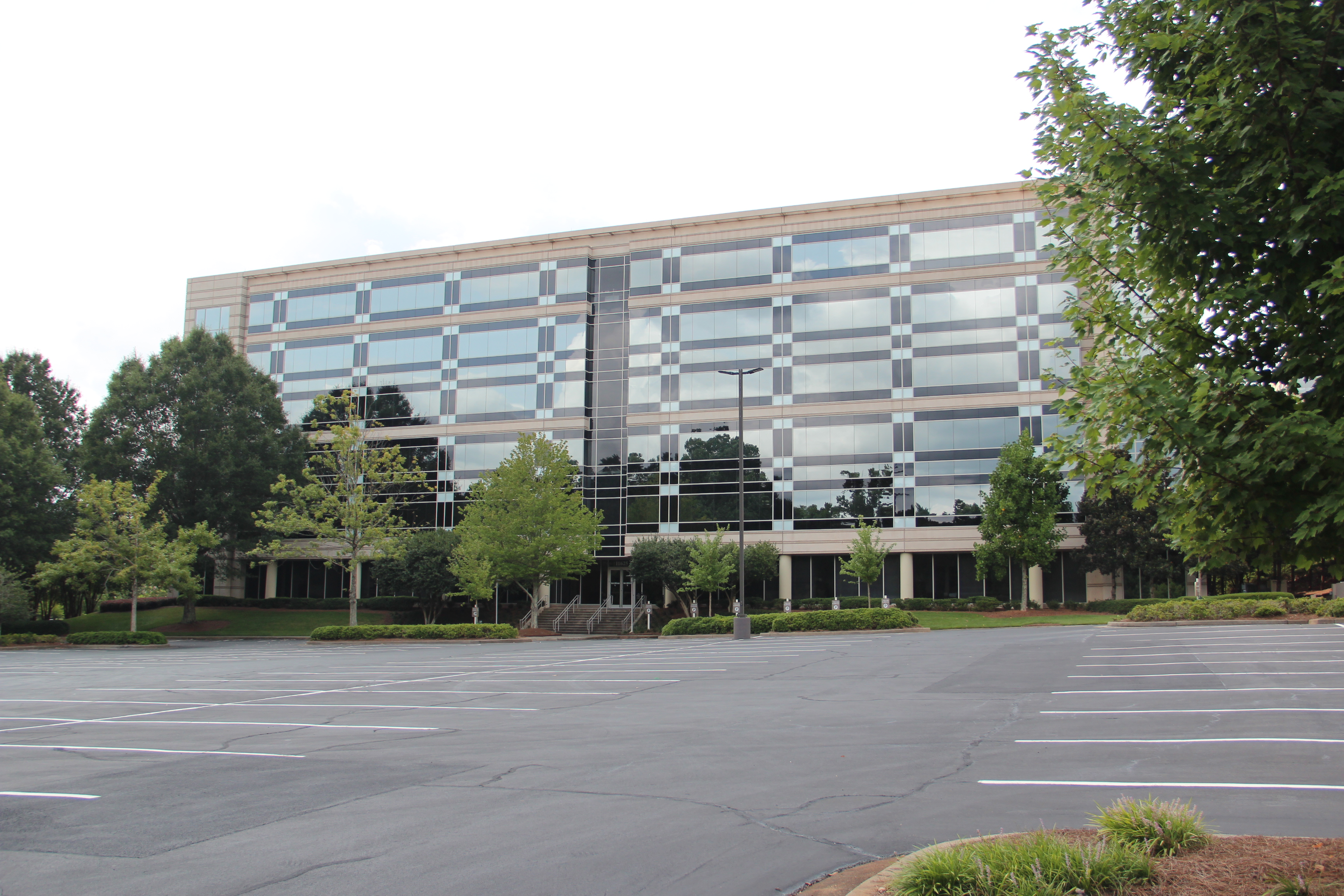 11625 Rainwater Dr, Alpharetta, GA